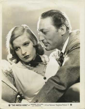 Promotional photo of Lili Damita and Warren William for The Match King (1932).